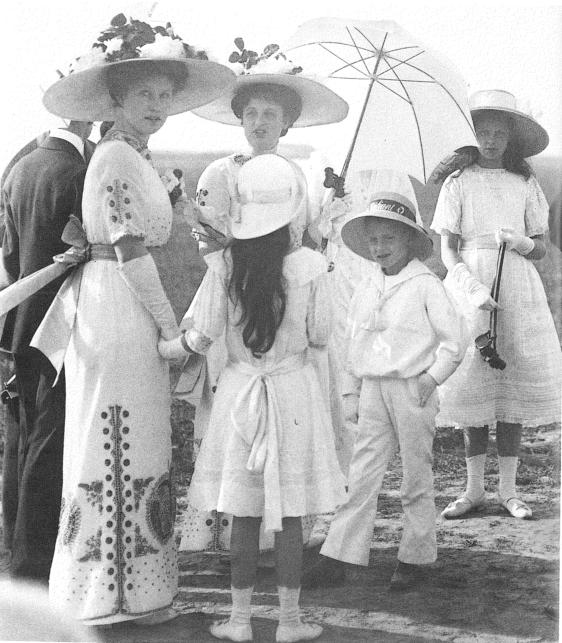 The family of Archduke Leopold Salvator of Austria at an air-show in Aspern in Vienna. The archduke had a keen interest in aviation and was an enthusiastic hot-air ballon rider.